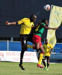 Bukenya wins an aerial duel